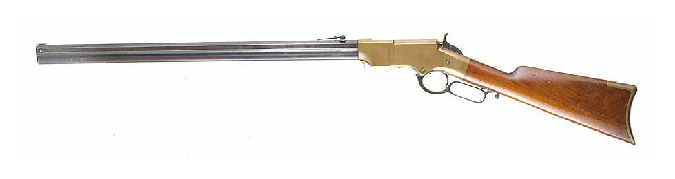 Henry rifle Model 1860, .44 caliber, manufactured by the New Haven Arms Company.